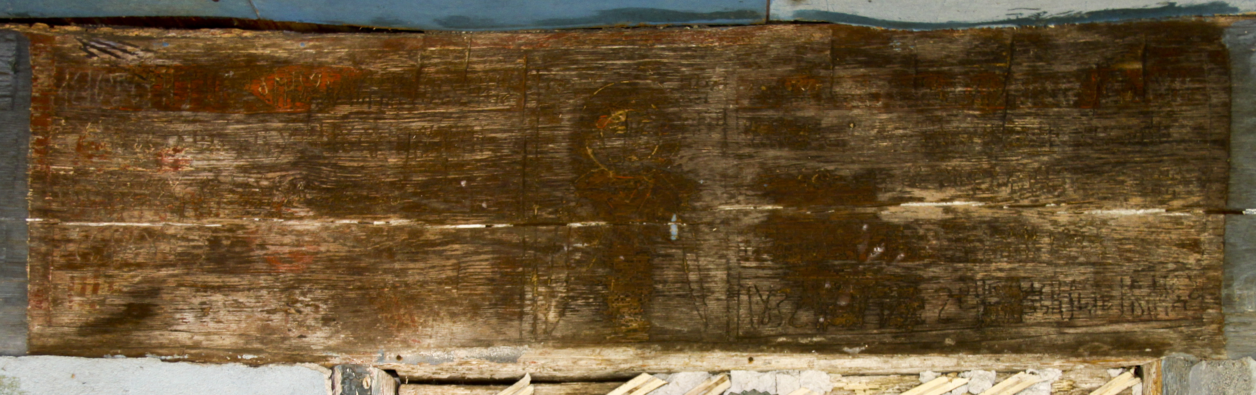 Nemoiu, Vâlcea county, Romania: the wooden church.